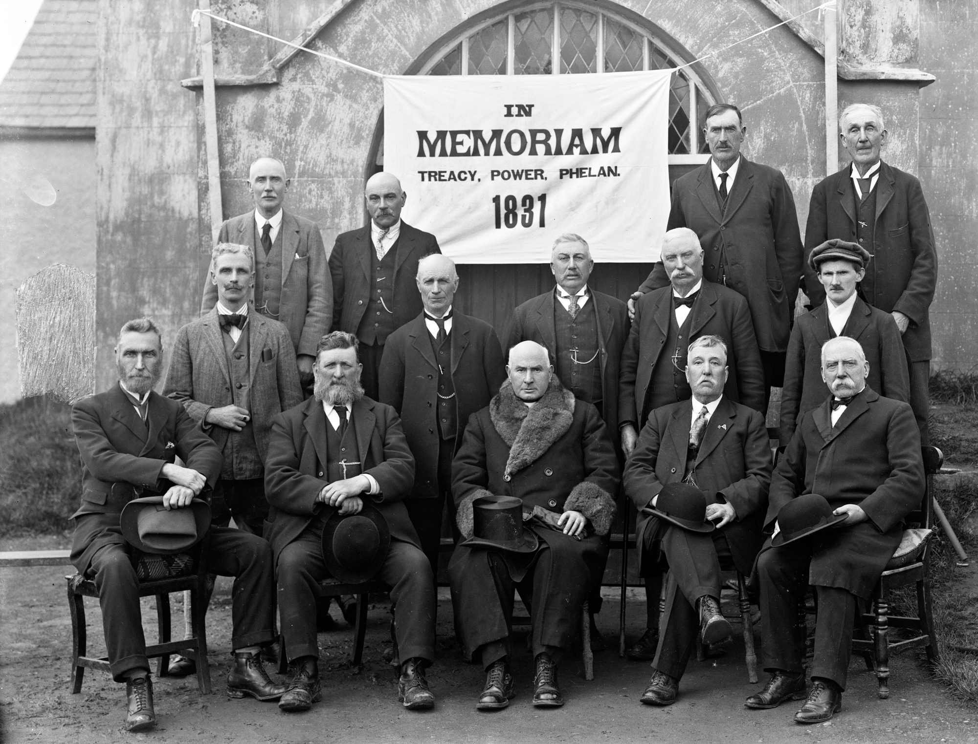 A fine group of gentlemen gathered to commemorate something at Hugginstown. Looking at the related images which appear on the NLI catalogue it is clear that this was an annual event but what was it and who were "Treacy, Power and Phelan"? Again thanks to our amazing community, the klaxons have rung for the elusive trifecta: date, location and extensive detail on subject. A summary of all the fantastic contributions today would not do justice. However, the location was established as the chapel at Hugginstown, County Killkenny, the date as 1925, and the subject of the banner as the 1831 Carrickshock incident. [/photos/47297387@N03/ Carol Maddock] capped this off with seeming confirmation that the group pictured represent the committee involved with the 1925 construction of a memorial marker to the events of 1831. While 14 are pictured here, the committee included at least 12: - James Walsh (chairman from Templeorum) - Michael Duggan (of Ballinteskin) - John Walsh (of Kilkeasy) - Patrick Walsh (of Carrickshock) - Edward Walsh (of Munster Express/Waterford Mayor) - Thomas O'Dwyer (of Croan) - John Lee (of Newmarket) - Thomas Holden (of Newmarket) - Thomas O'Donovan (of Condonstown) - Edmond V. Drea (of Waterford) - Michael O'Farrell (trustee of Ballyknock) - and P. Molloy (sculptor and contractor for the monument) Photographer: A. H. Poole Collection: Poole Photographic Studio, Waterford Date: ca. 19 April 1925 NLI Ref: POOLEWP 3255 You can also view this image, and many thousands of others, on the NLI’s catalogue at